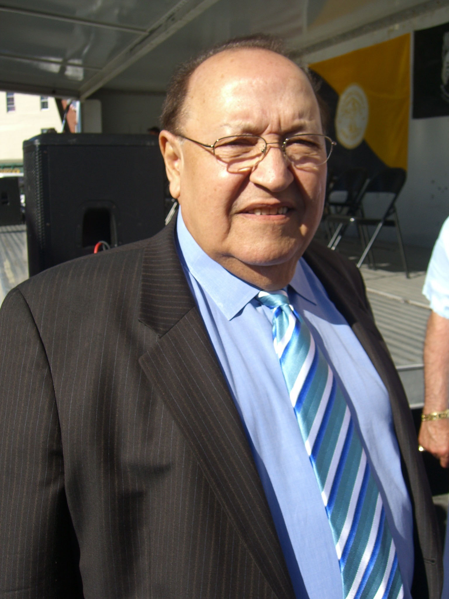 Singer and Roberto Torres at a June 2, 2011 ceremony at Celia Cruz Plaza in Union City, New Jersey, where the city honored him, Pablo Raúl Alarcón and Jon Secada with stars at the Plaza's Walk of Fame for contributions to the world of Latin entertainment and media. Photographed by Luigi Novi. This photo is not in the public domain. It may, however, be used, modified and published for any purpose, free of charge, only if the photographer is properly credited, either by linking the photograph to this page, or with an easily visible credit to the photographer placed near the photo in each instance in which it is used. (See licensing information below.) Publication of this photo without this proper attribution constitutes copyright infringement. If you have any questions, you can contact me on my Wikipedia Talk Page.